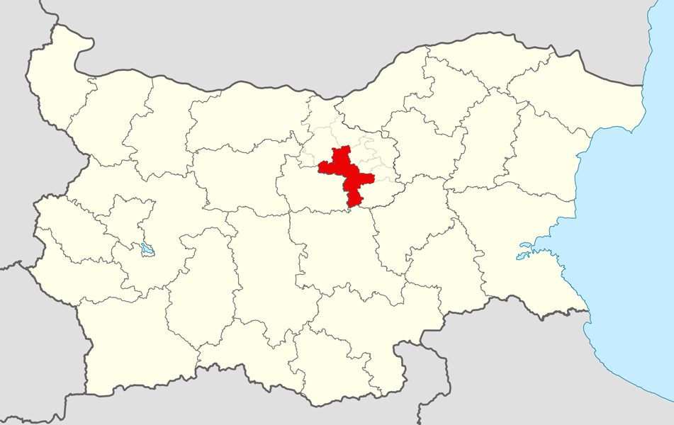 Location map of Veliko Tarnovo Municipality within Bulgaria and Veliko Tarnovo Province. Equirectangular projection, N/S stretching 130 %. Geographic limits of the map: N: 44.4° N S: 41.1° N W: 22.1° E E: 28.9° E